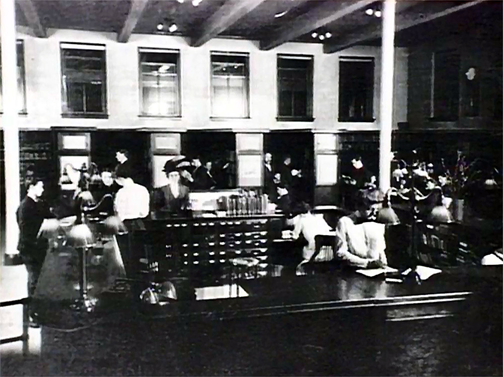 One of the first libraries with open stacks is the Carnegie Library of Pittsburgh South Side branch, shown about 1910 right after its opening with its massive front desk for security purposes.